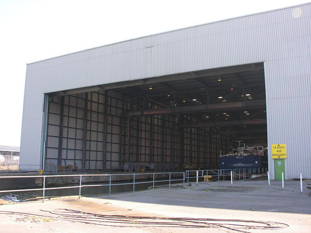 Covered Steel Terminal, King George Dock This terminal was built over a former drydock and offers under-cover discharge for weather-sensitive steel coils and other materials in ships that are within the stated maximum 13.5 metres 'air draught' i.e. height of ship above the water level.